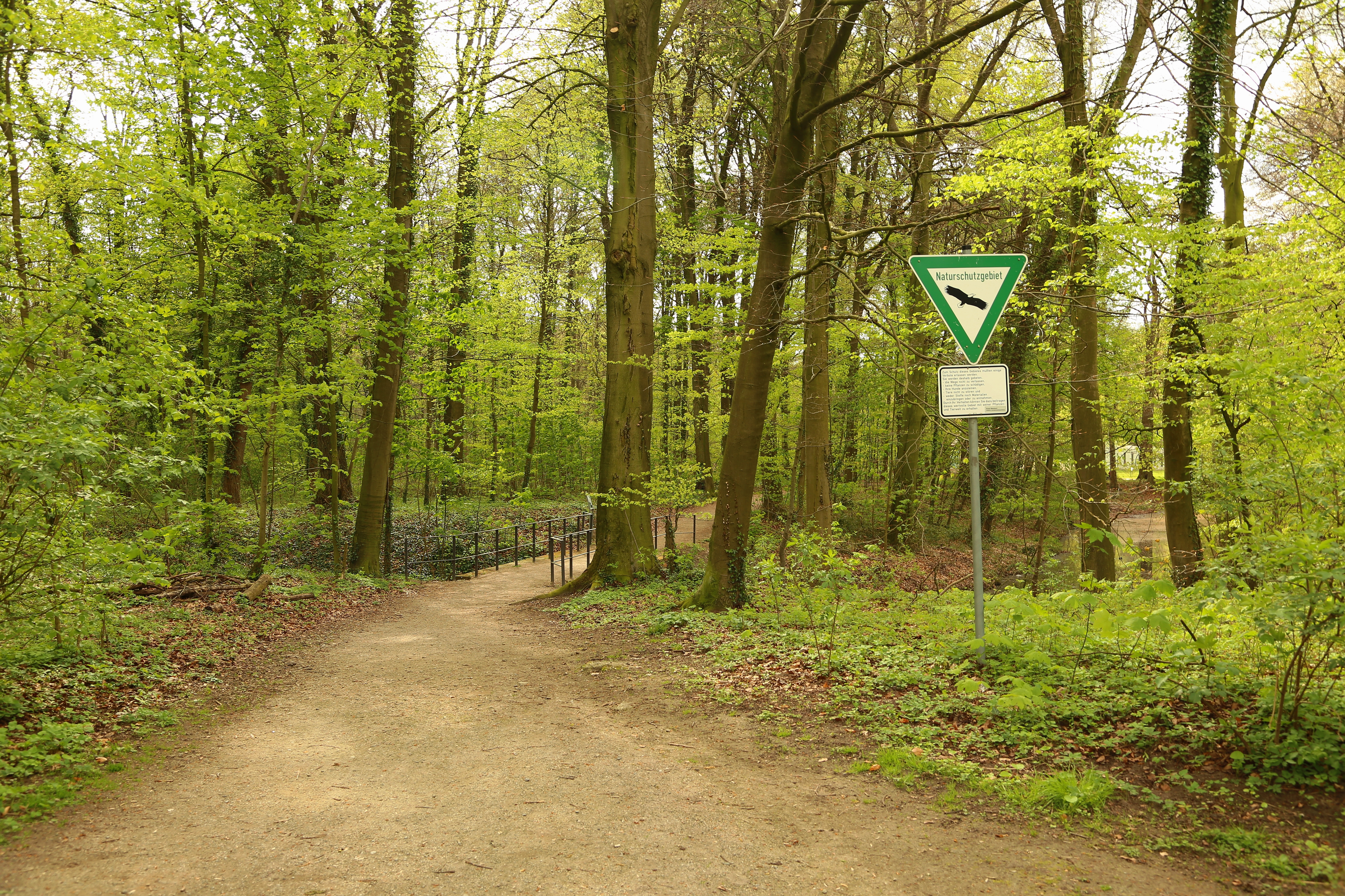 Entrance to the nature reserve (Naturschutzgebiet/NSG) „Am Bagno – Buchenberg“ at the Bagno in Steinfurt-Burgsteinfurt, Kreis Steinfurt, North Rhine-Westphalia, Germany.